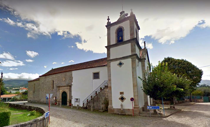 Igreja do antigo Convento da Madre de Deus ou Igreja Matriz de Vinhó